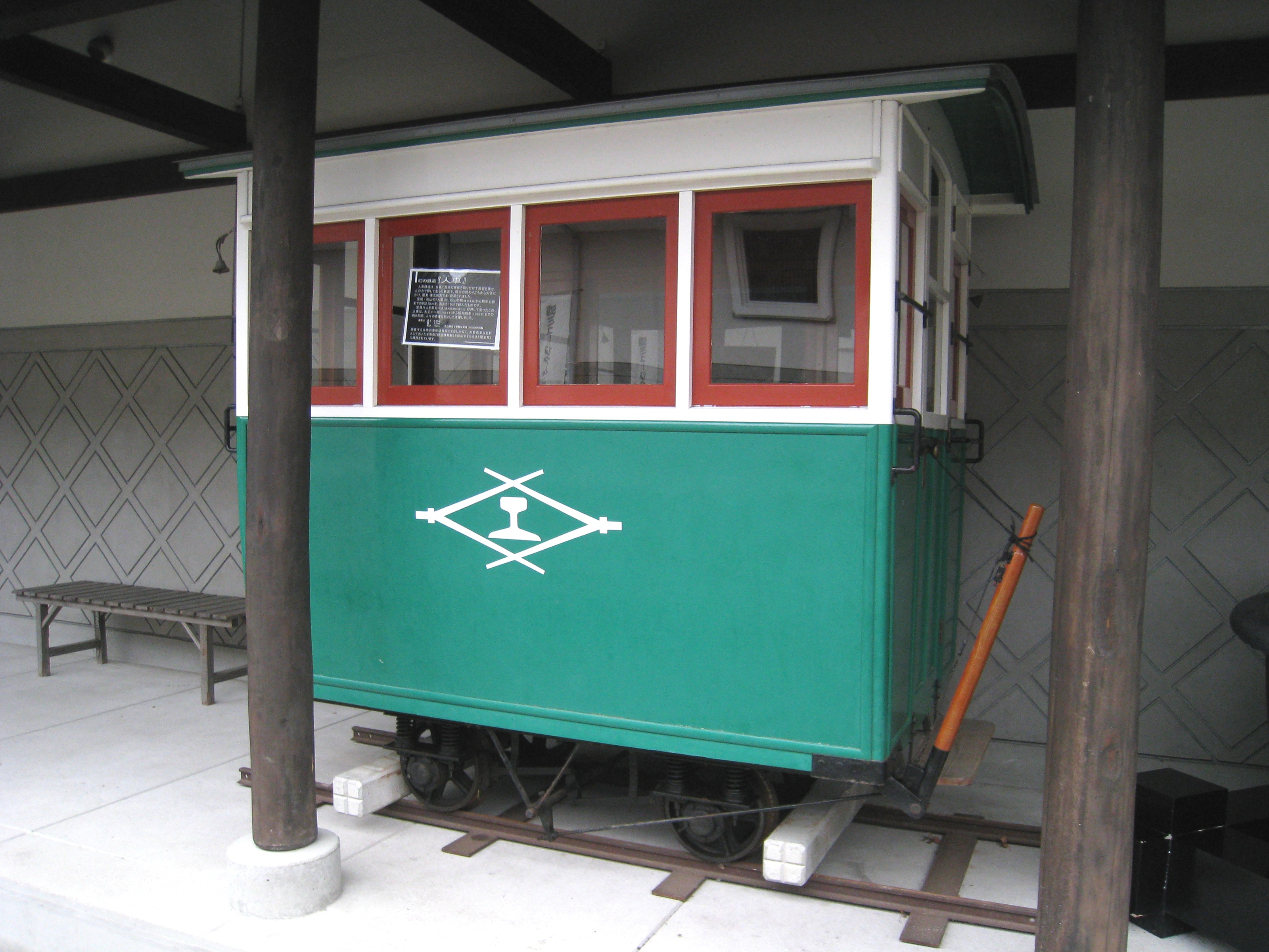 Side view of replica handcar coach of Matsuyama Handcar Tramway, exhibited at Osaki City Matsuyama Sake Museum in Osaki City, Miyagi Prefecture, Japan